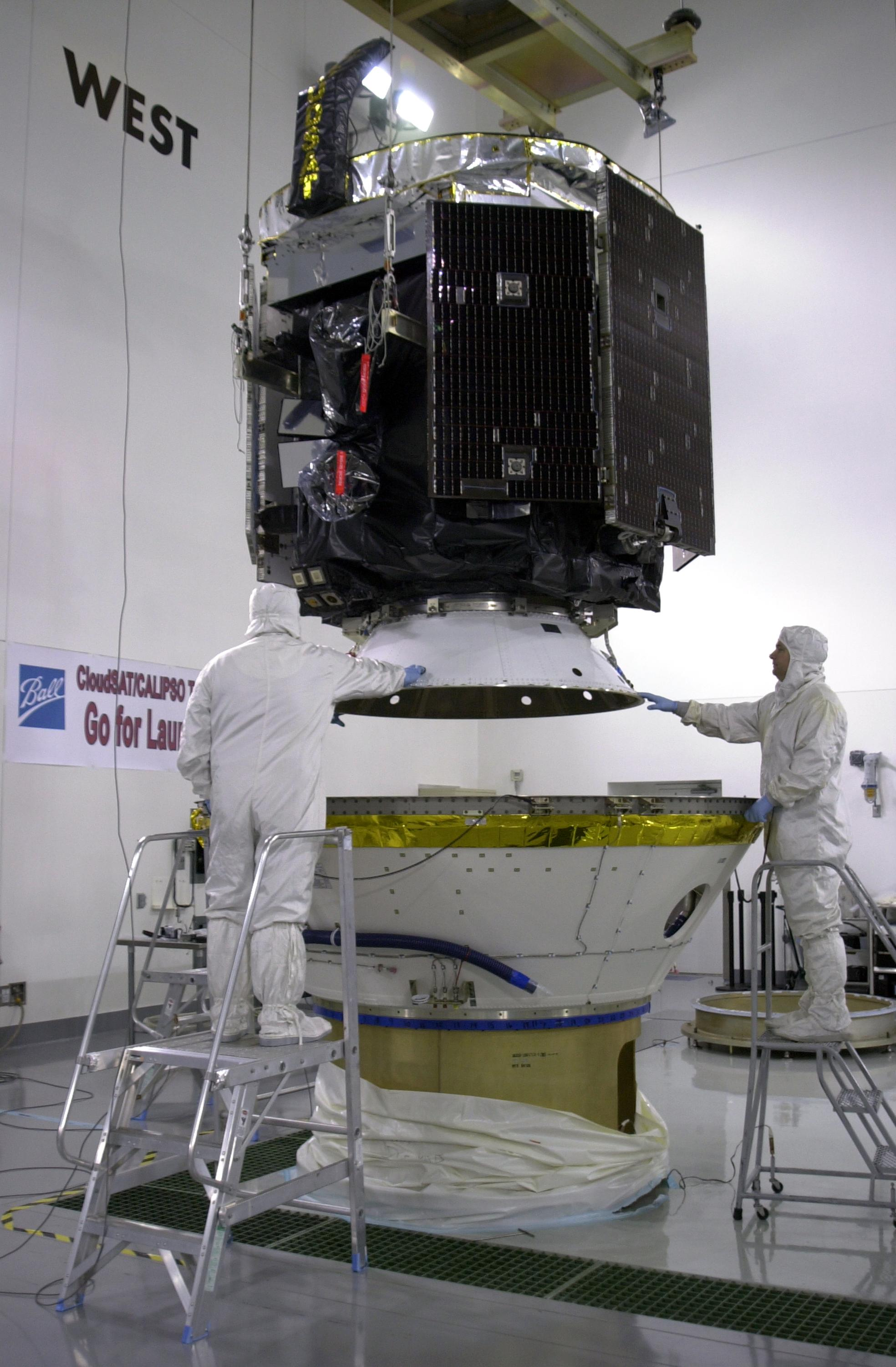 CloudSat is lowered into the lower part of the dual-payload attach fitting.